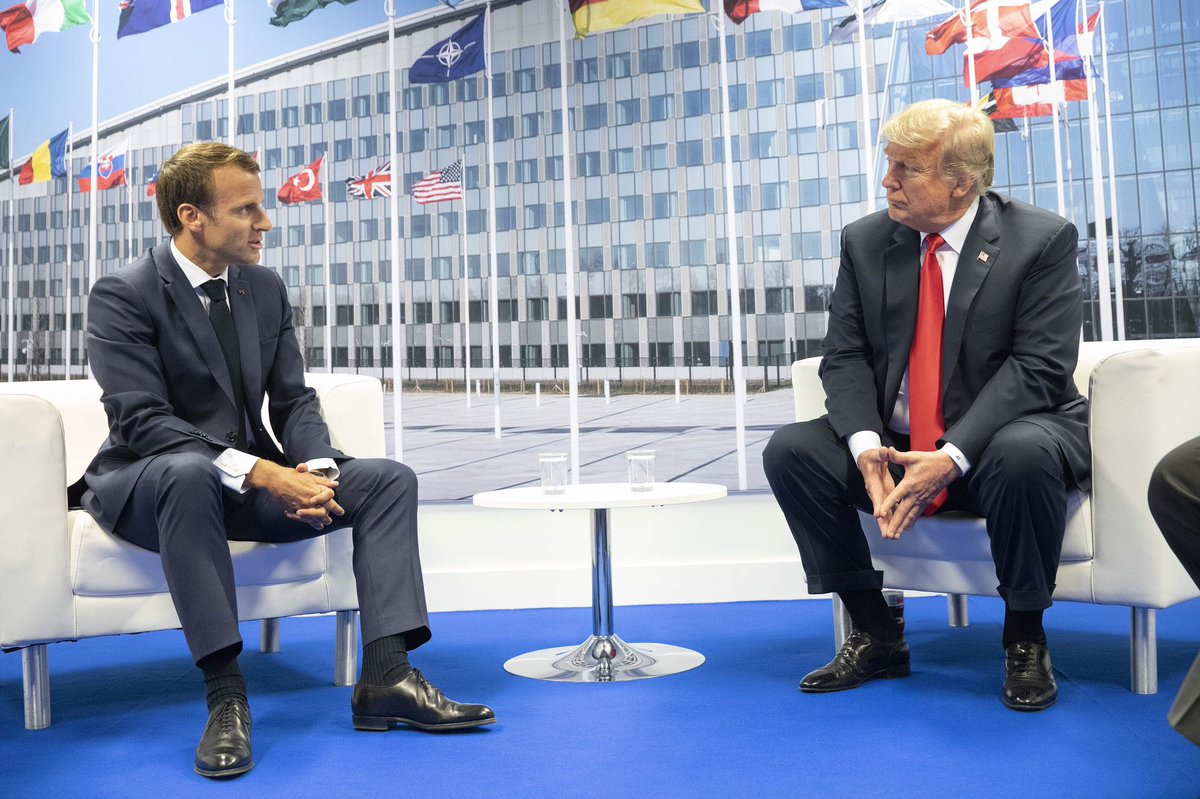 President Donald Trump and President Emmanuel Macron of France meeting earlier today at NATO Summit 2018 in Brussels, Belgium.